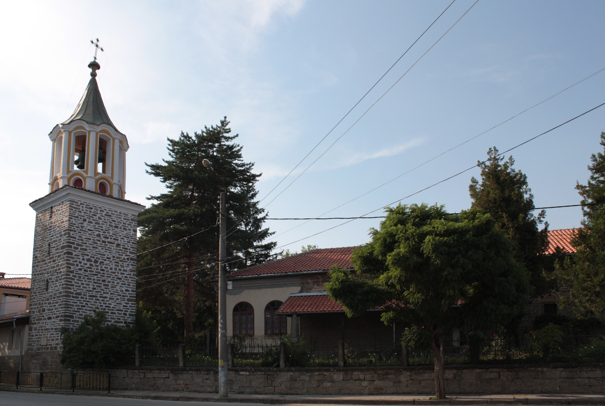 Pchelishte The Asuption of Mary Church